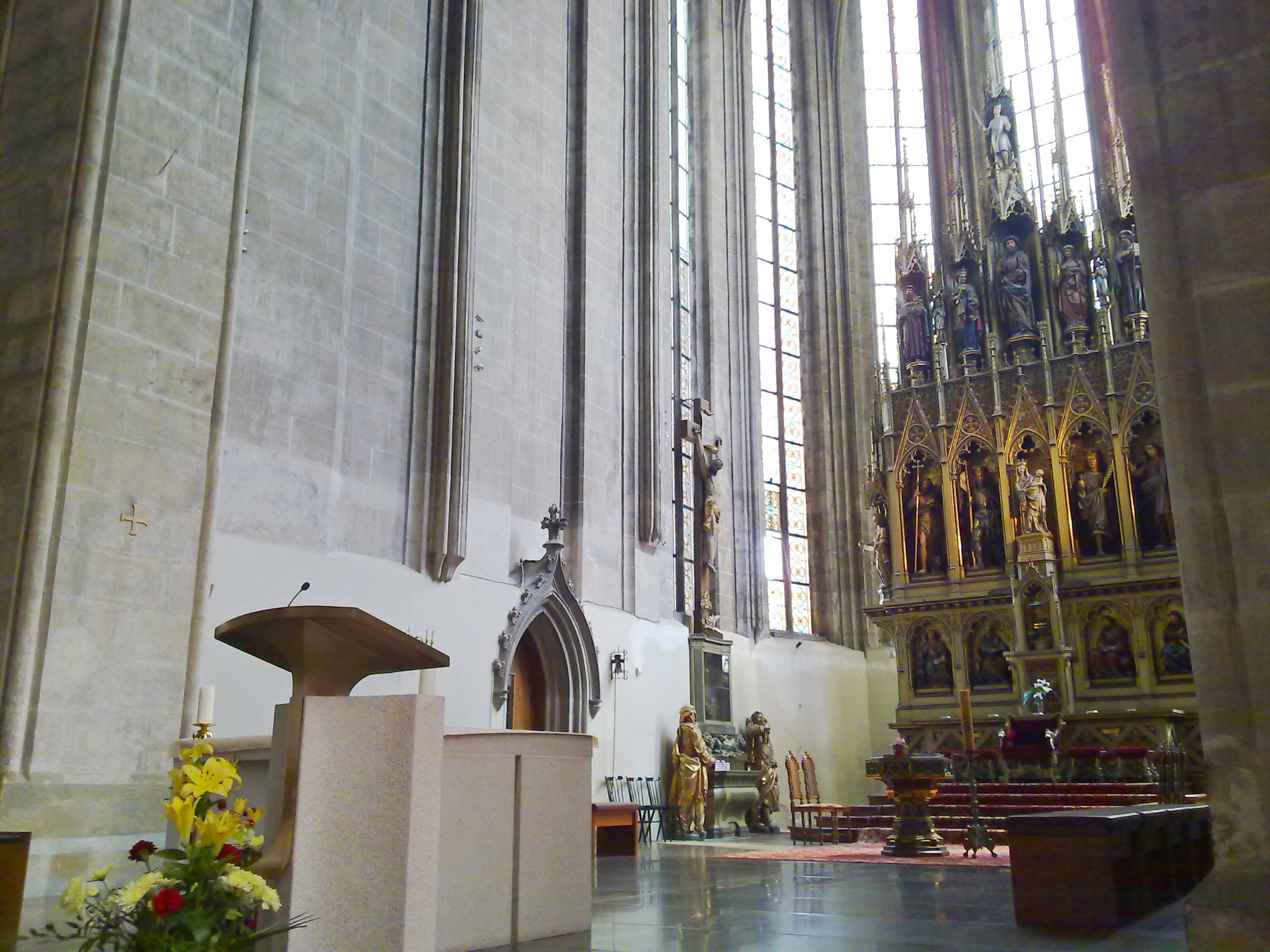 Presbytář Katedrály svatého Bartoloměje v Plzni